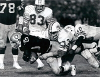 Miami Dolphins defensive tackle Bob Baumhower tackling Oakland Raiders running back Mark van Eeghen during an October 8, 1979 game at Oakland–Alameda County Coliseum.